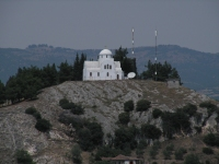 Sotiras hill, also known as Top-mpair, in Sidirokastro, Serres, Greece